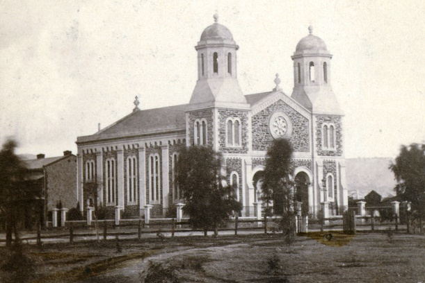 Congregational church in Adelaide, South Australia, built 1862, demolished c. 1970